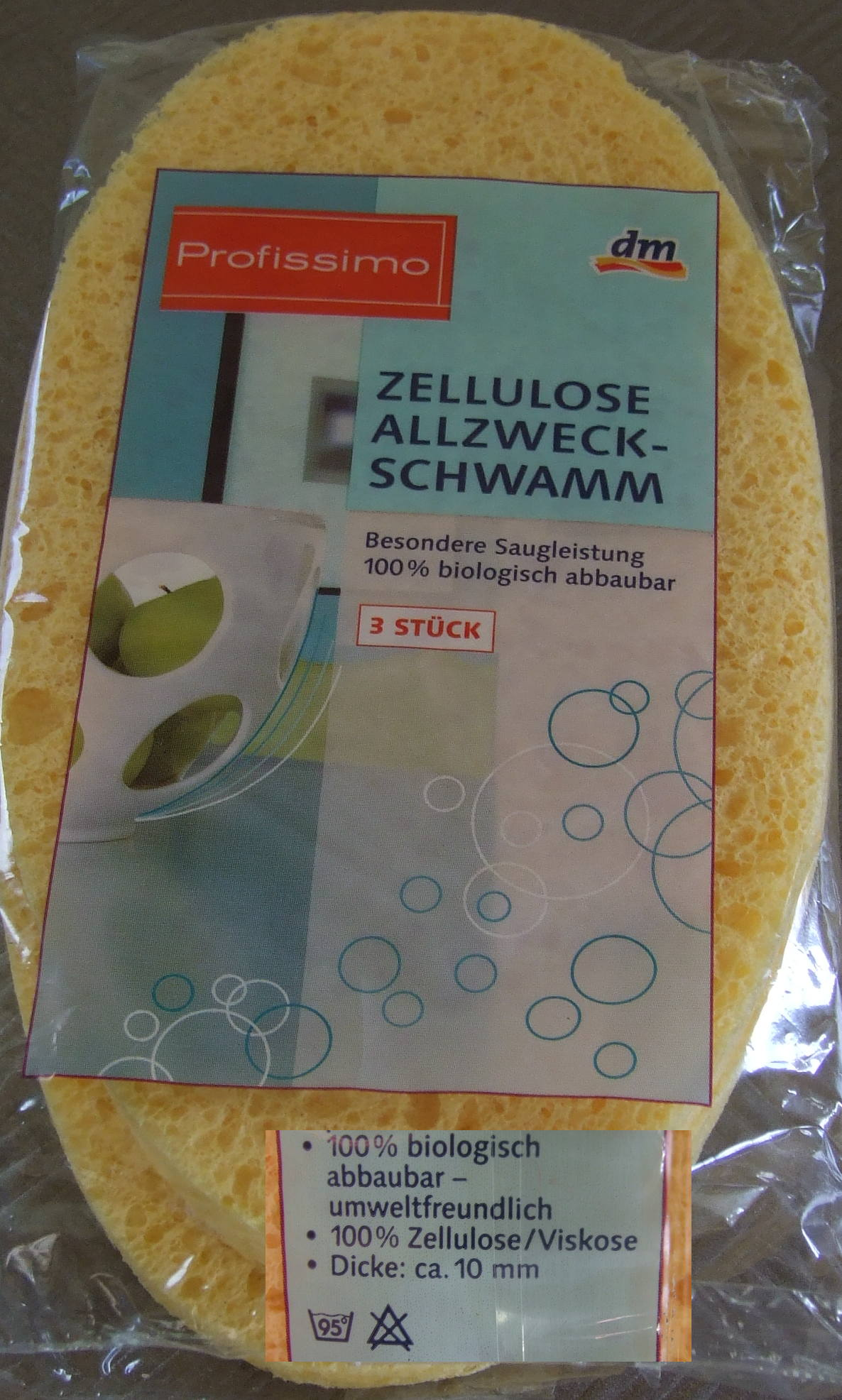 household sponge made of Cellulose/Viscose (Front of in Sales packaging - inserted is part ogf the rear of the packaging)